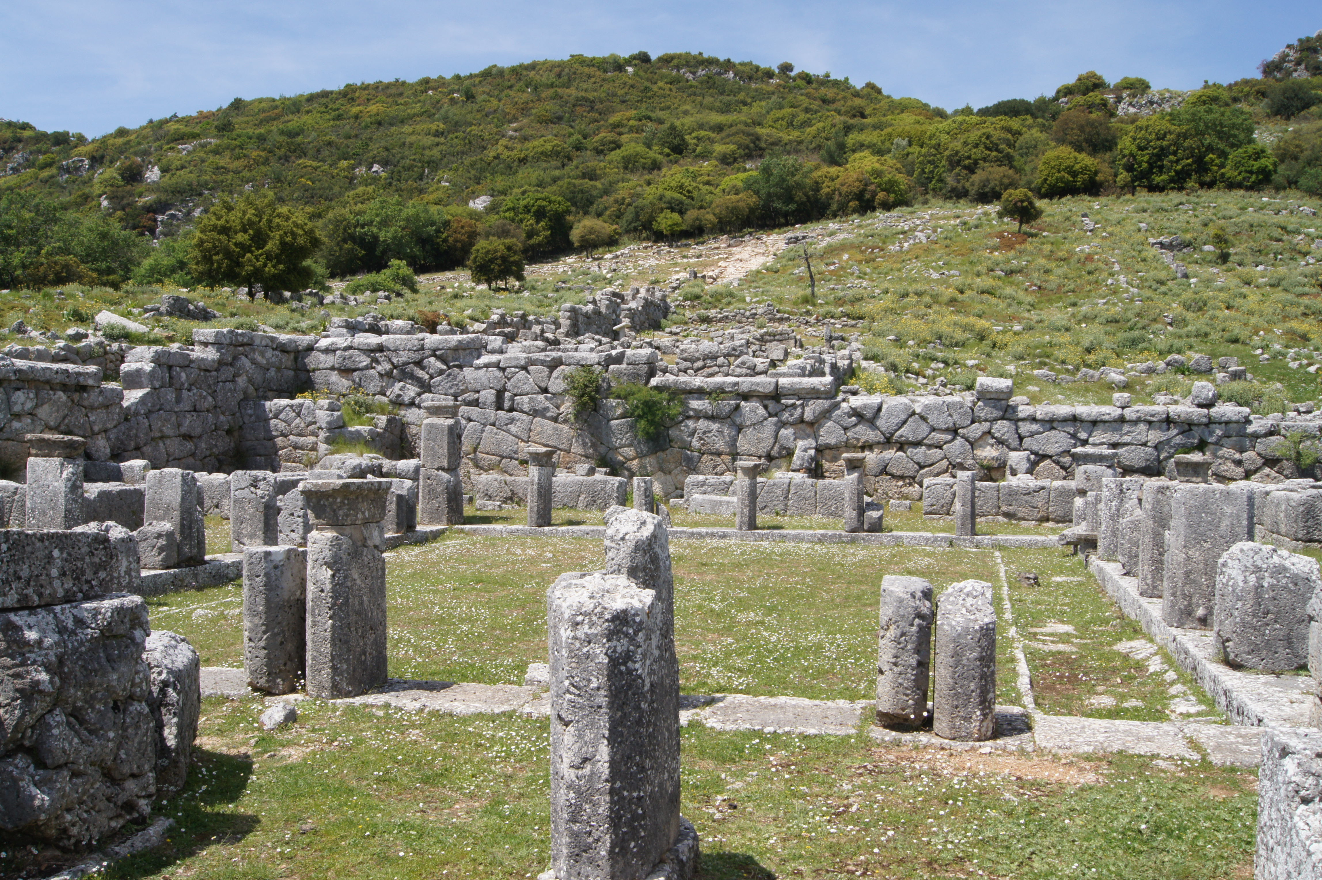 Kassope